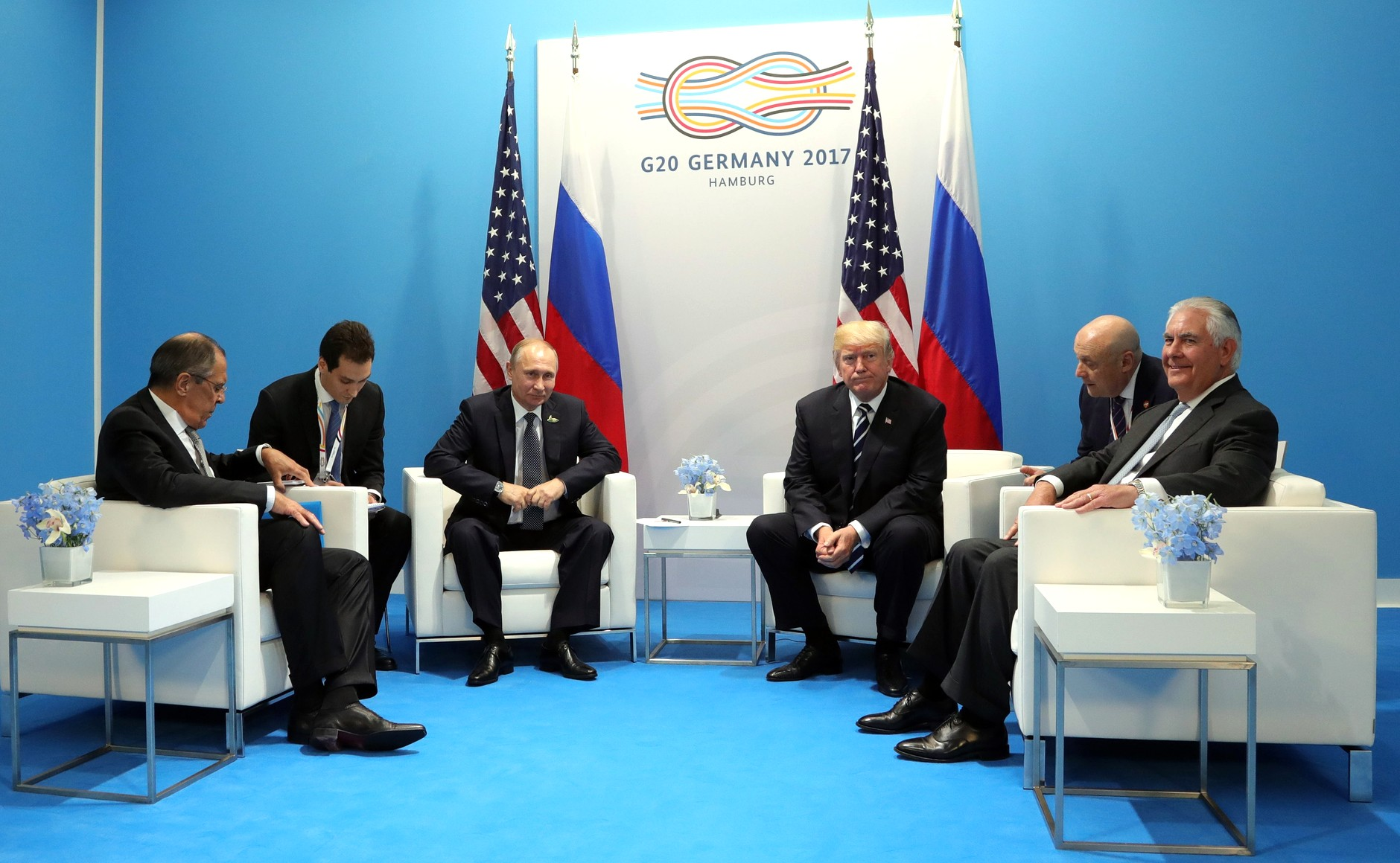 Vladimir Putin and Donald Trump meet at the 2017 G-20 Hamburg Summit